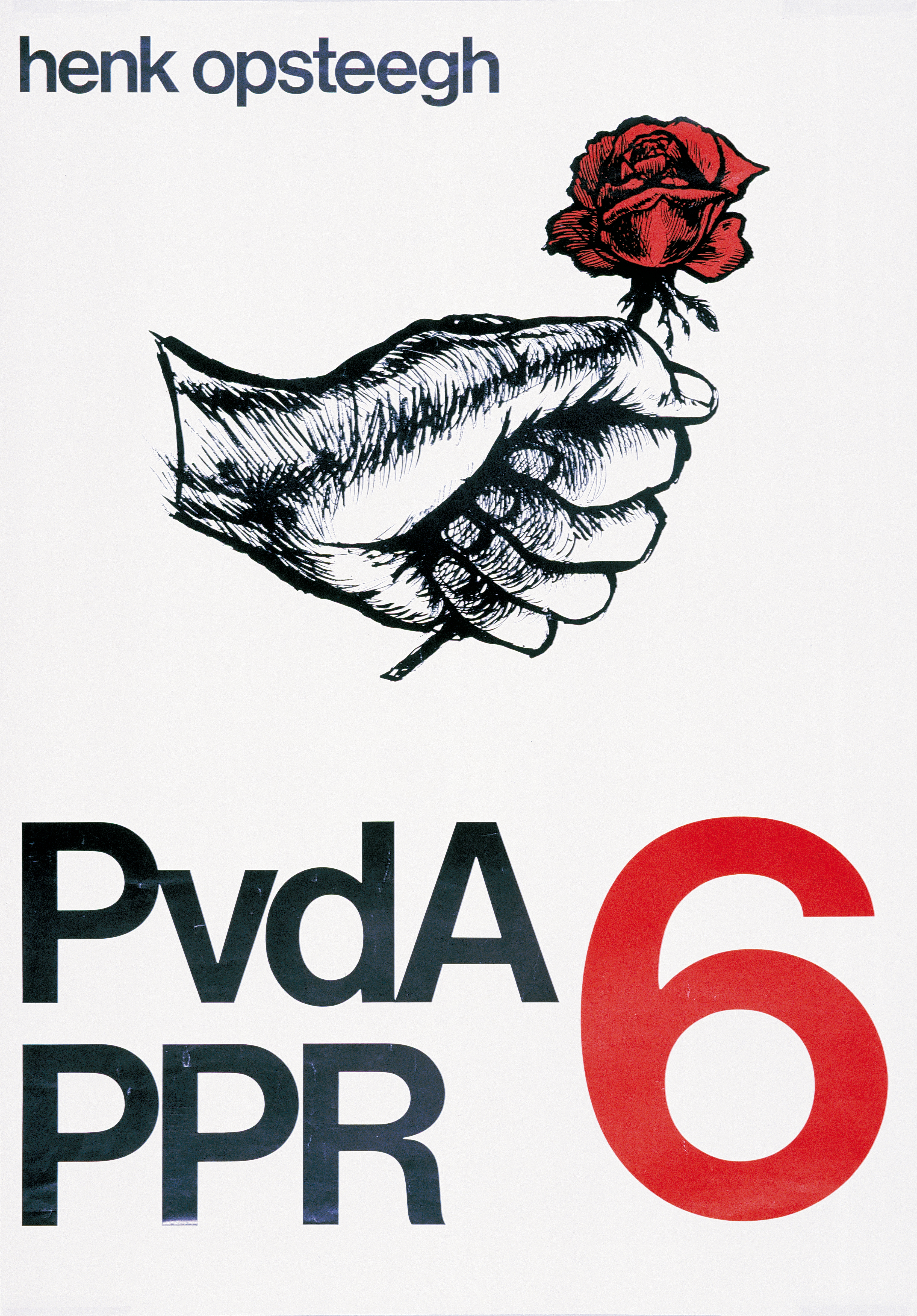 poster used during the local elections of 1974. In some municipalities the PvdA had an alliance with the PPR